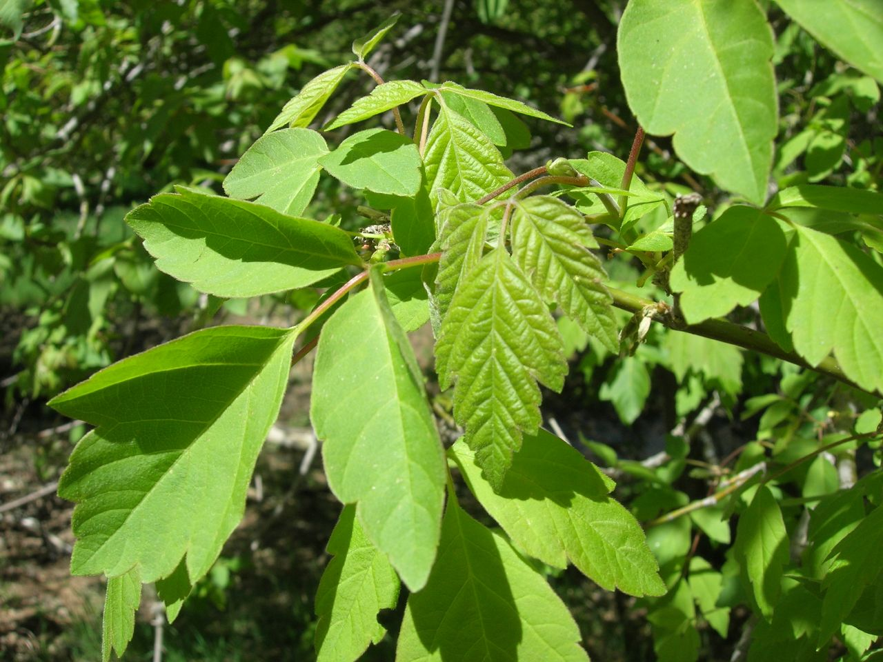 Acer negundo subsp. californicum foliage. Tehachapi Mountains, Kern Co., California.